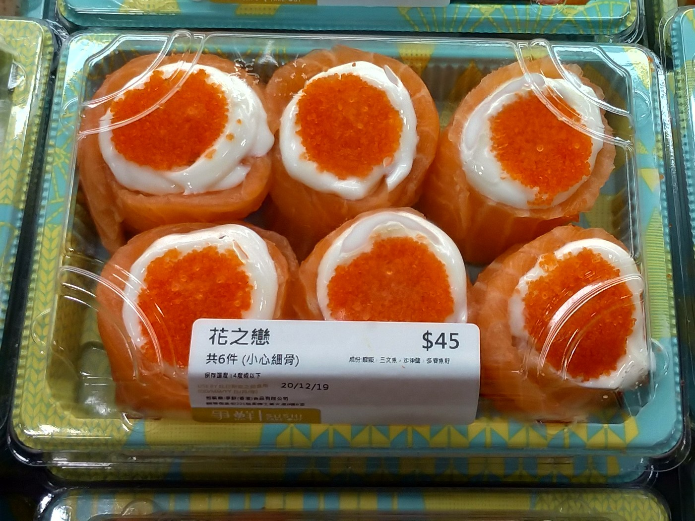 Flower Love Sushi at a fast food restaurant in HK.